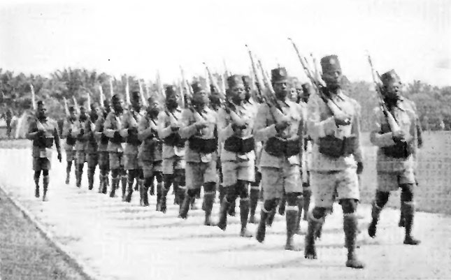 Force Publique Fusiliers leaving for Ethiopia to partake in the East African Campaign